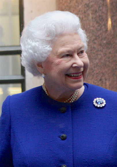 H.M. The Queen unveils a plaque at the Foreign & Commonwealth Office in London, 18 December 2012.